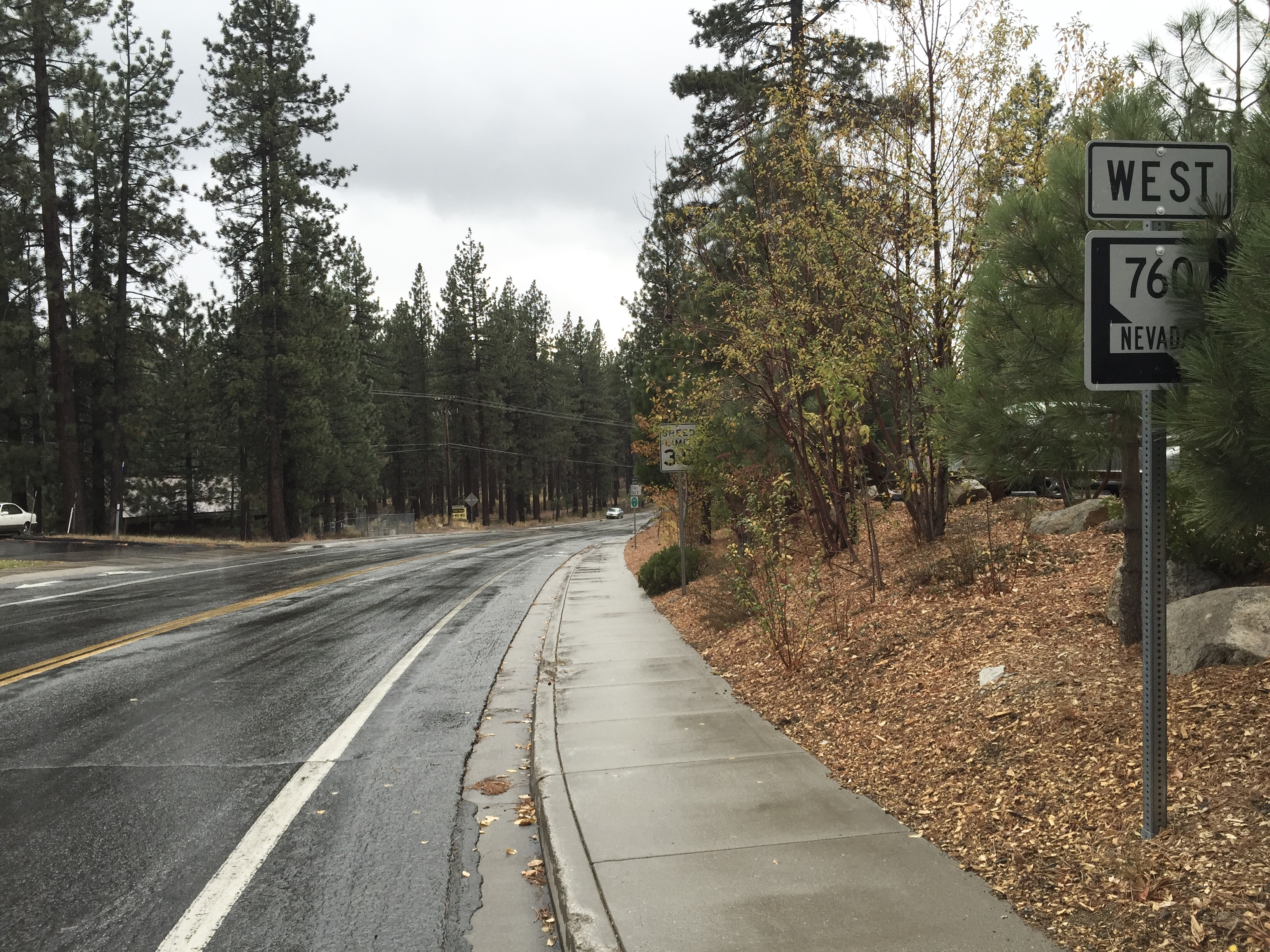 View west from the east end of Nevada State Route 760 (Elks Point Road) in Douglas County, Nevada